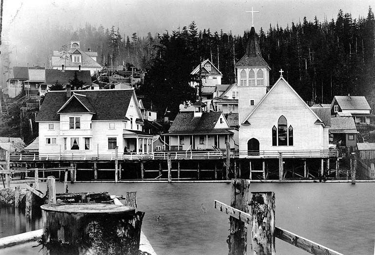 Subjects (LCTGM): Waterfronts--Alaska--Ketchikan; Piers & wharves--Alaska--Ketchikan; Dwellings--Alaska--Ketchikan Subjects (LCSH): Ketchikan (Alaska); Ketchikan (Alaska)--Buildings, structures, etc.